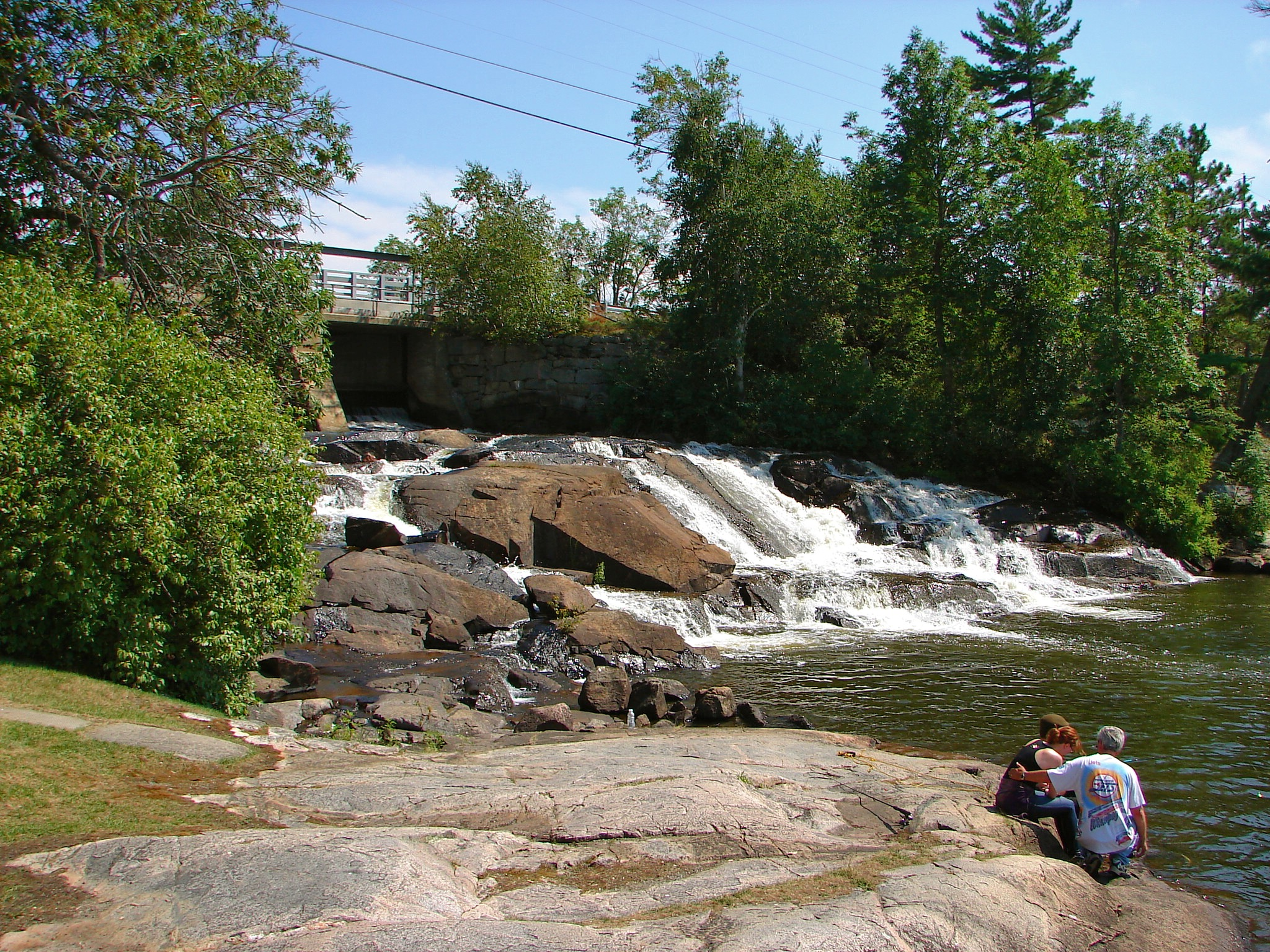 Nestor Falls, Ontario, Canada